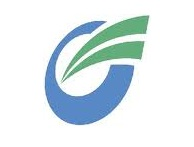 Flag of Joso, Ibaraki